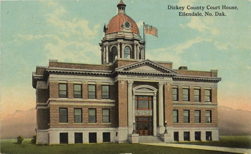 Photo postcard of Dickey County Courthouse, Ellendale, North Dakota. Image is in public domain as published before 1923. Source info on NDSU web site lists postmark date of November 3, 1915.